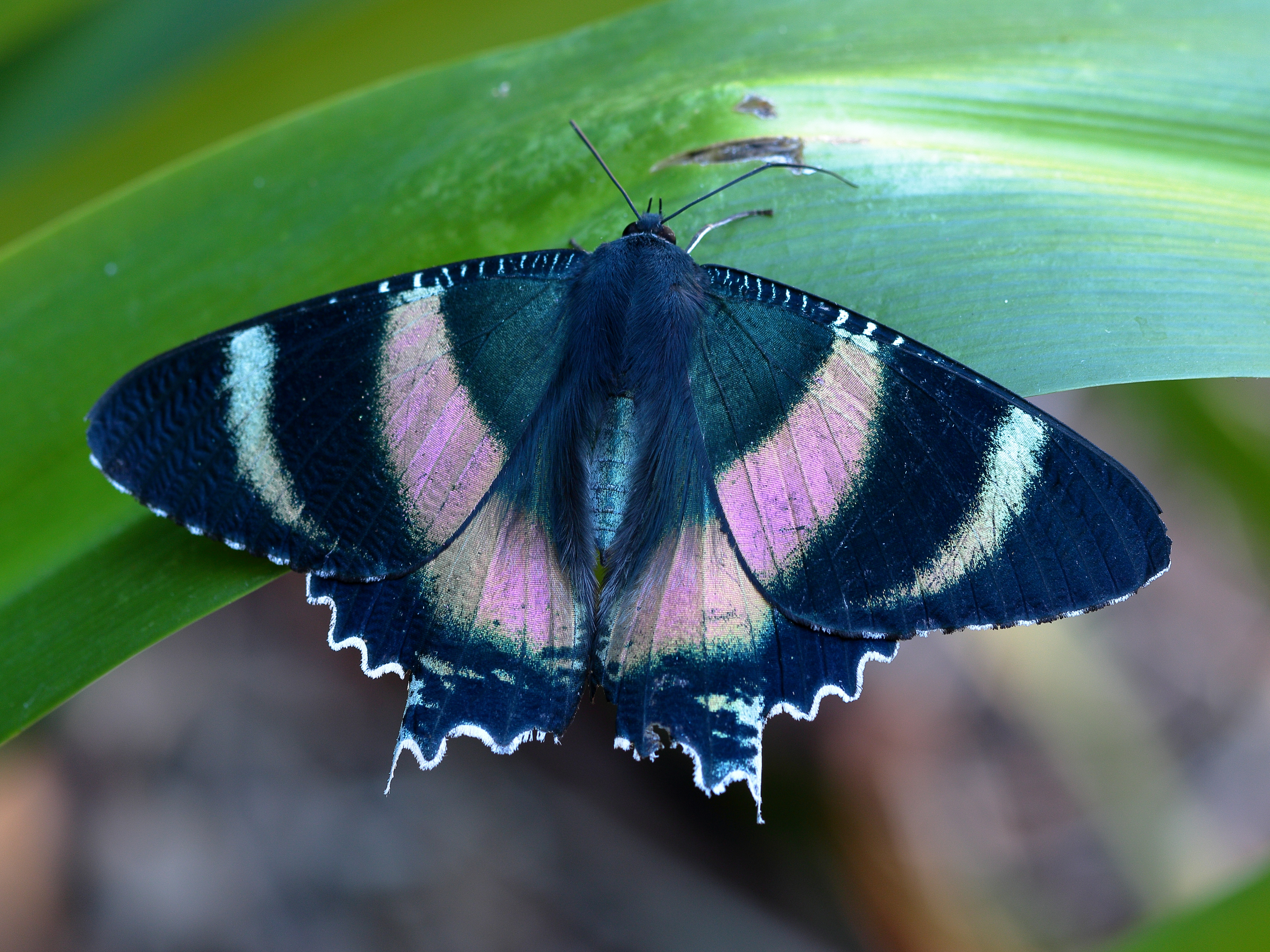 Queensland day moth Alcides metaurus taken in Cairns